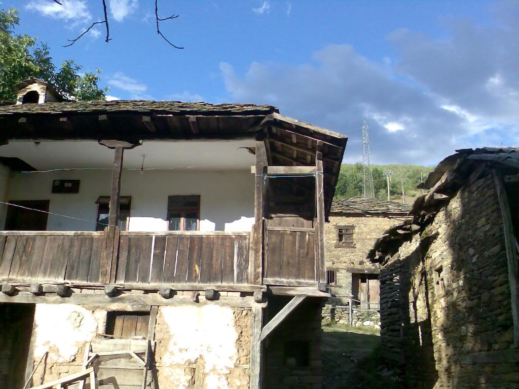 Village of Zrkle, Poreche region, Republic Macedonia